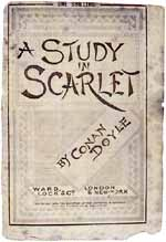 First edition A Study in Scarlet Arthur Conan Doyle